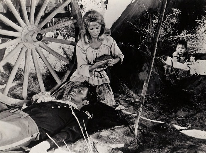 Bibi Andersson & Bill Travers in Duel at Diablo - publicity still (cropped)